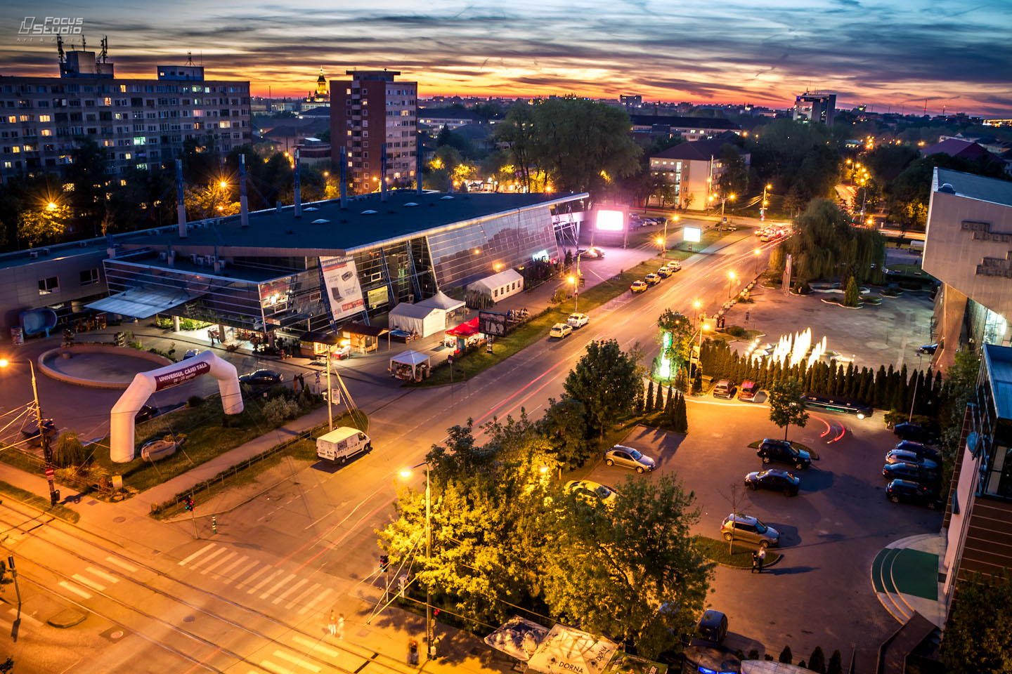 Timișoara Regional Business Centre (Centrul Regional de Afaceri) Other information The quality of the released photo on Wikipedia is better than the quality of the same photo on Facebook. Therefore, I proved my copyright holding more than hypothetically.